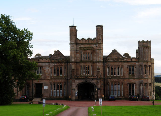 Monteith House This is now a nursing home, previously Carstairs House c. 1907. Built in 1821 - 1823 Designed by William Burns, the site was previously owned By Mr William Fullerton. This Tudor Gothic style mansion was built for Mr Henry Monteith MP.